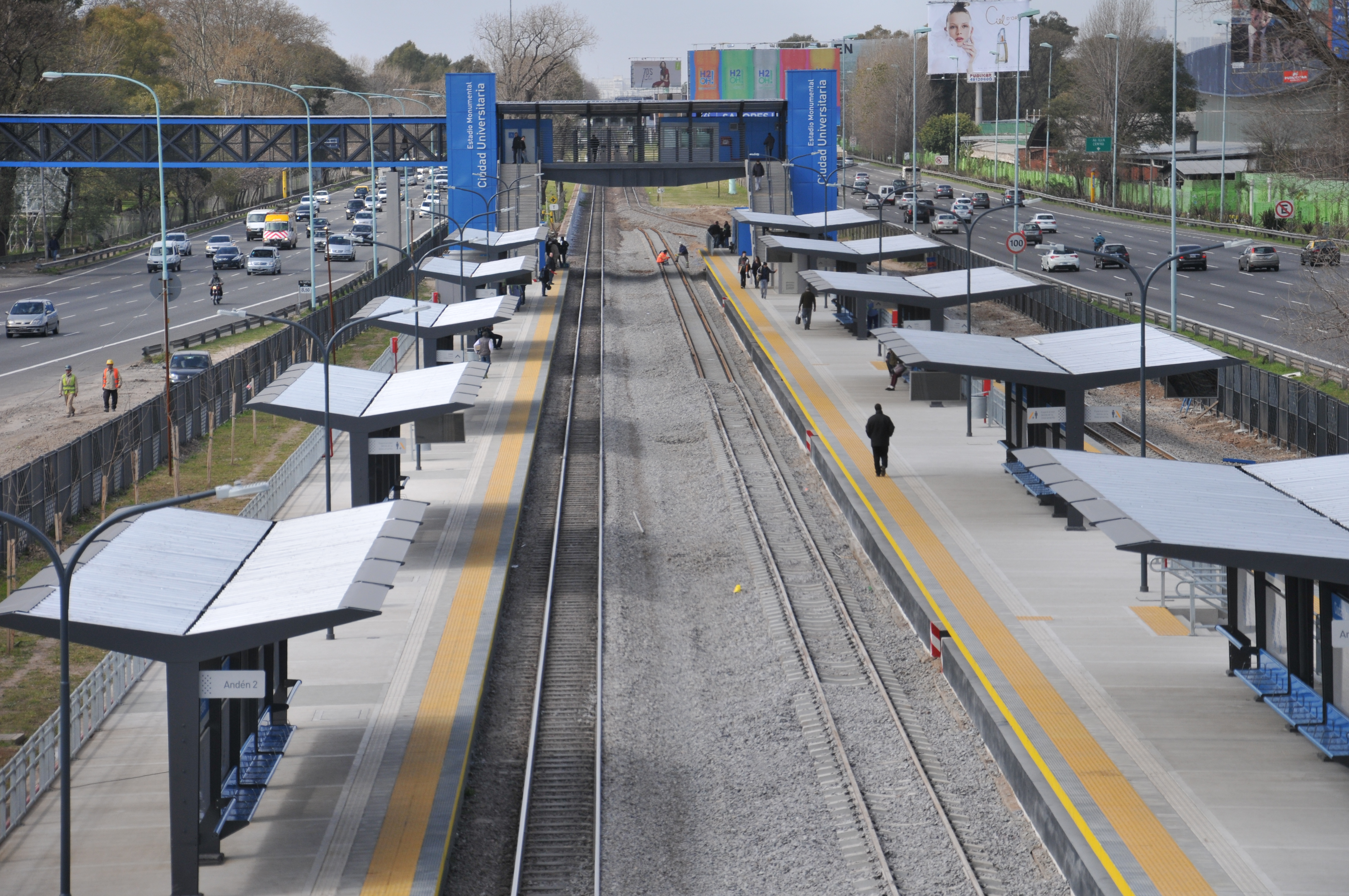 Ciudad Universitaria train station on the Belgrano Norte Line in Buenos Aires.